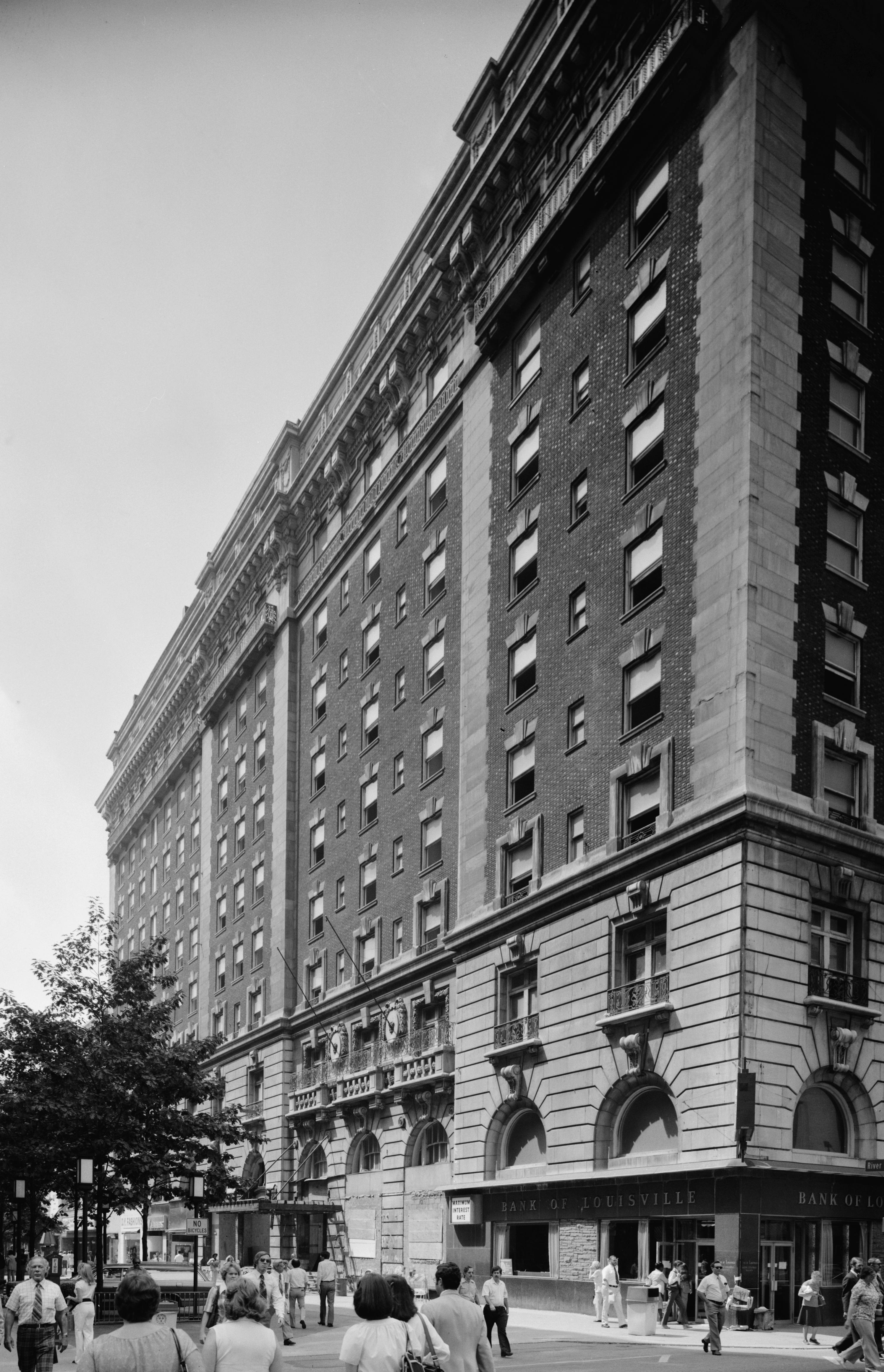 Front of the Seelbach Hotel, located at 500 S. Fourth Street in Louisville, Kentucky, United States. Built in 1905, it is listed on the National Register of Historic Places.